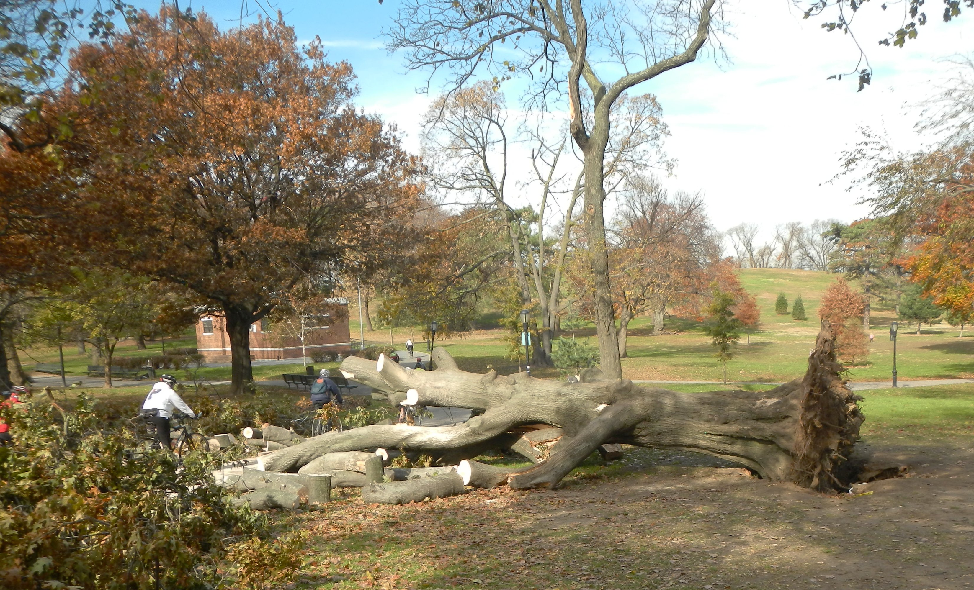 Looking north as Rebecca bikes past an oak tree knocked down by Hurricane Sandy on a mostly sunny late morning.